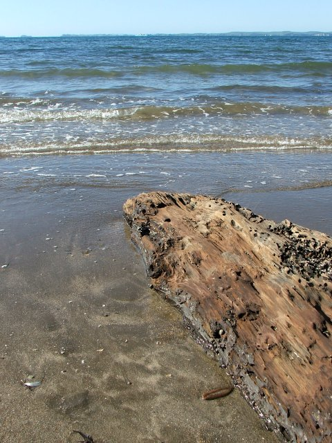 Log on Mairangi Bay Beach. Mairangi Bay is a suburb of North Shore City, New Zealand.